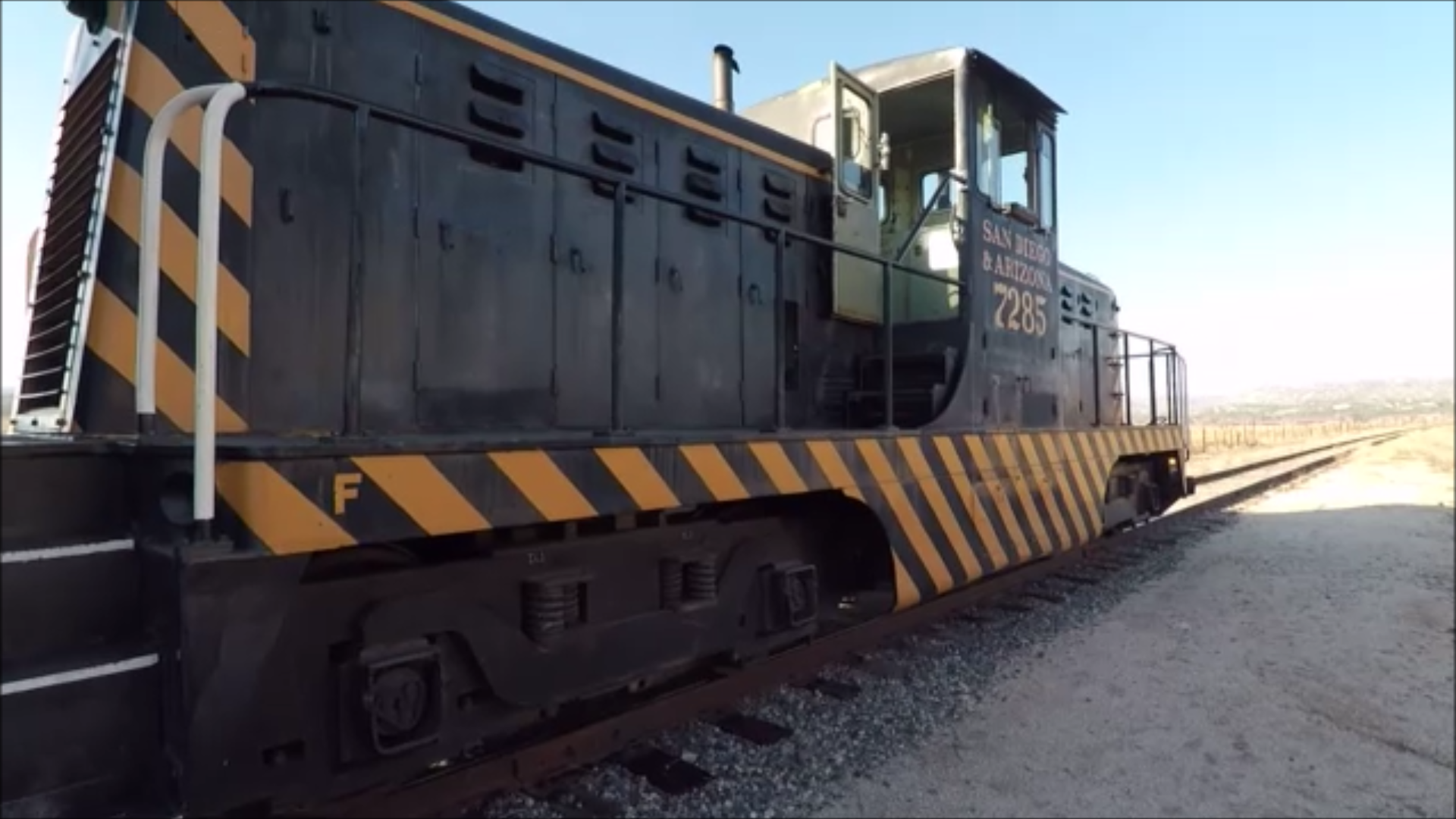 The Pacific Southwest Railway Museum GE 80 Ton Switcher